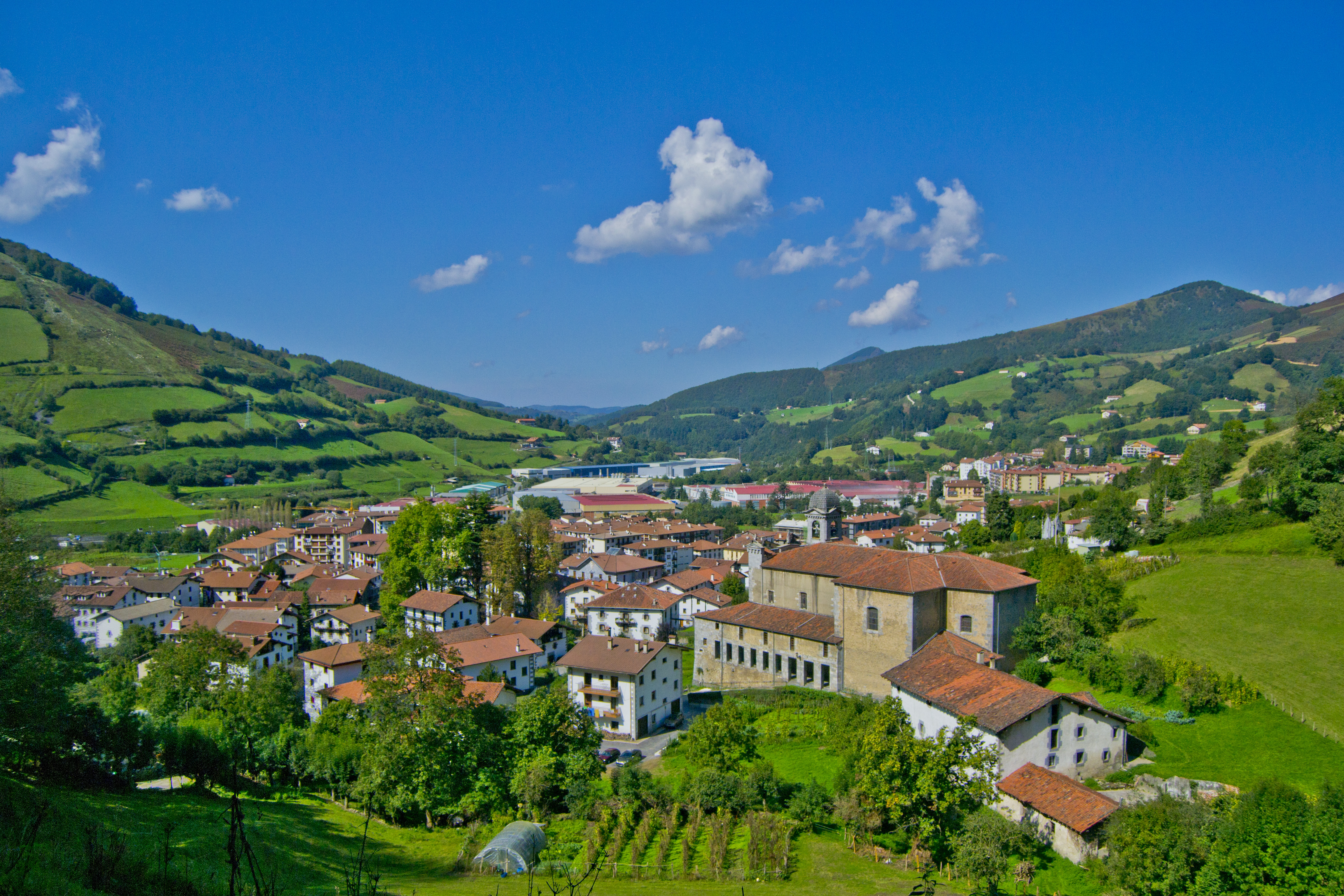 View of Leitza village. Navarre, Basque Country.